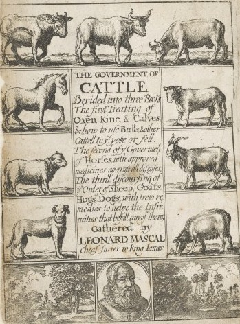 Frontispiece from The Government of Cattle (1662) by Leonard Mascall.